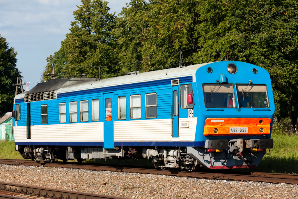 ACh2-099 railcar, Betlitsa railway station, Moscow railway, Kaluga region, Russia